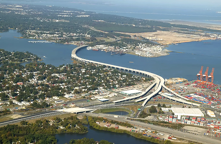 Aerial photograph of the Pinners Point Interchange. Virginia State Route 164 is in the background; West Norfolk Bridge is in the center part of the screen; MLK Freeway is to the left, Portsmouth Marine Terminals is to the right, with road leading to the Midtown Tunnel passing the terminals.